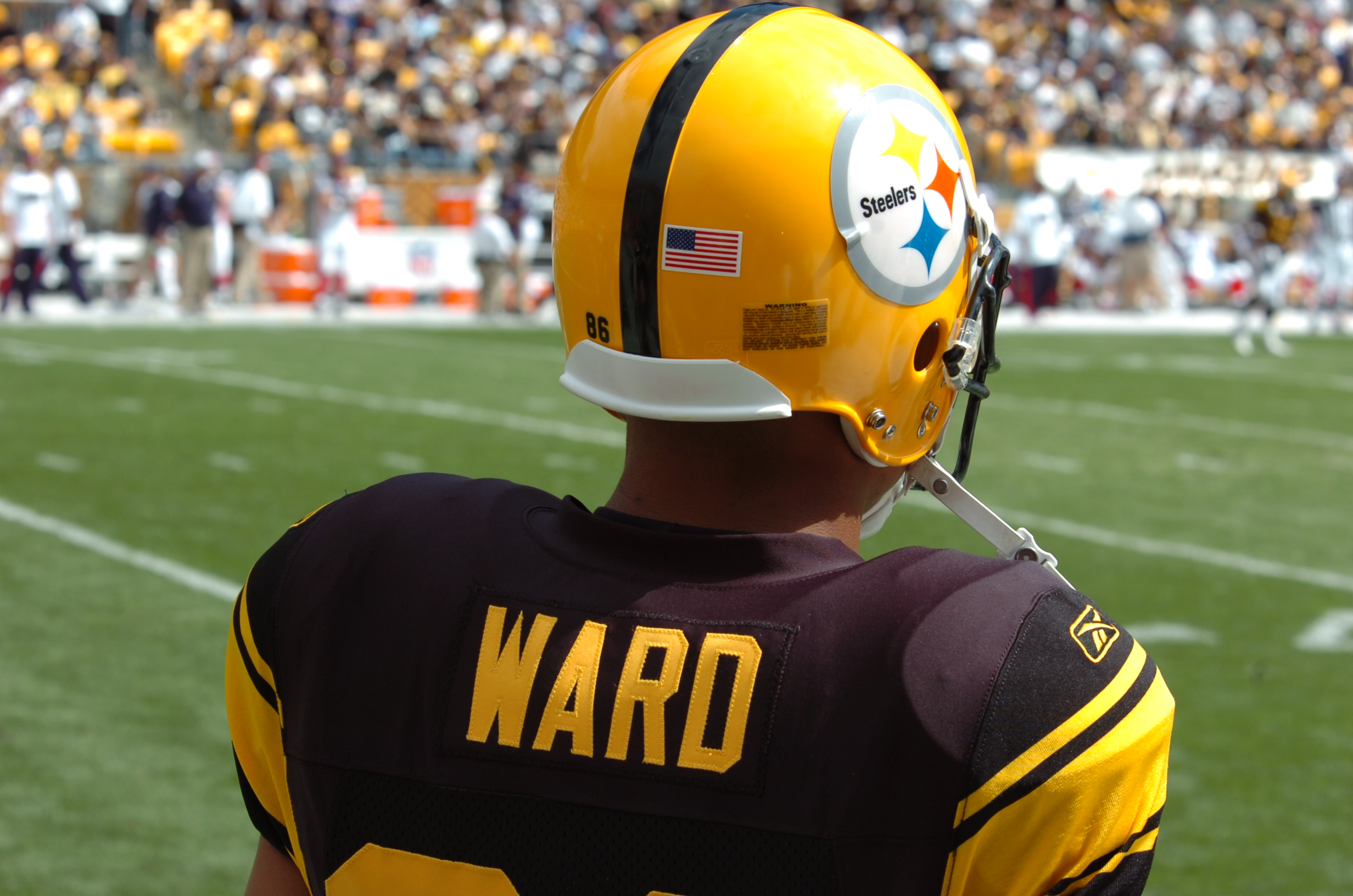 Hines Ward at the Pittsburgh Steelers 2007 home opener. The Steelers beat the Bills 26 - 3. This was the 500th win for the Steelers, who wore the 75th year "Throwback" uniforms.